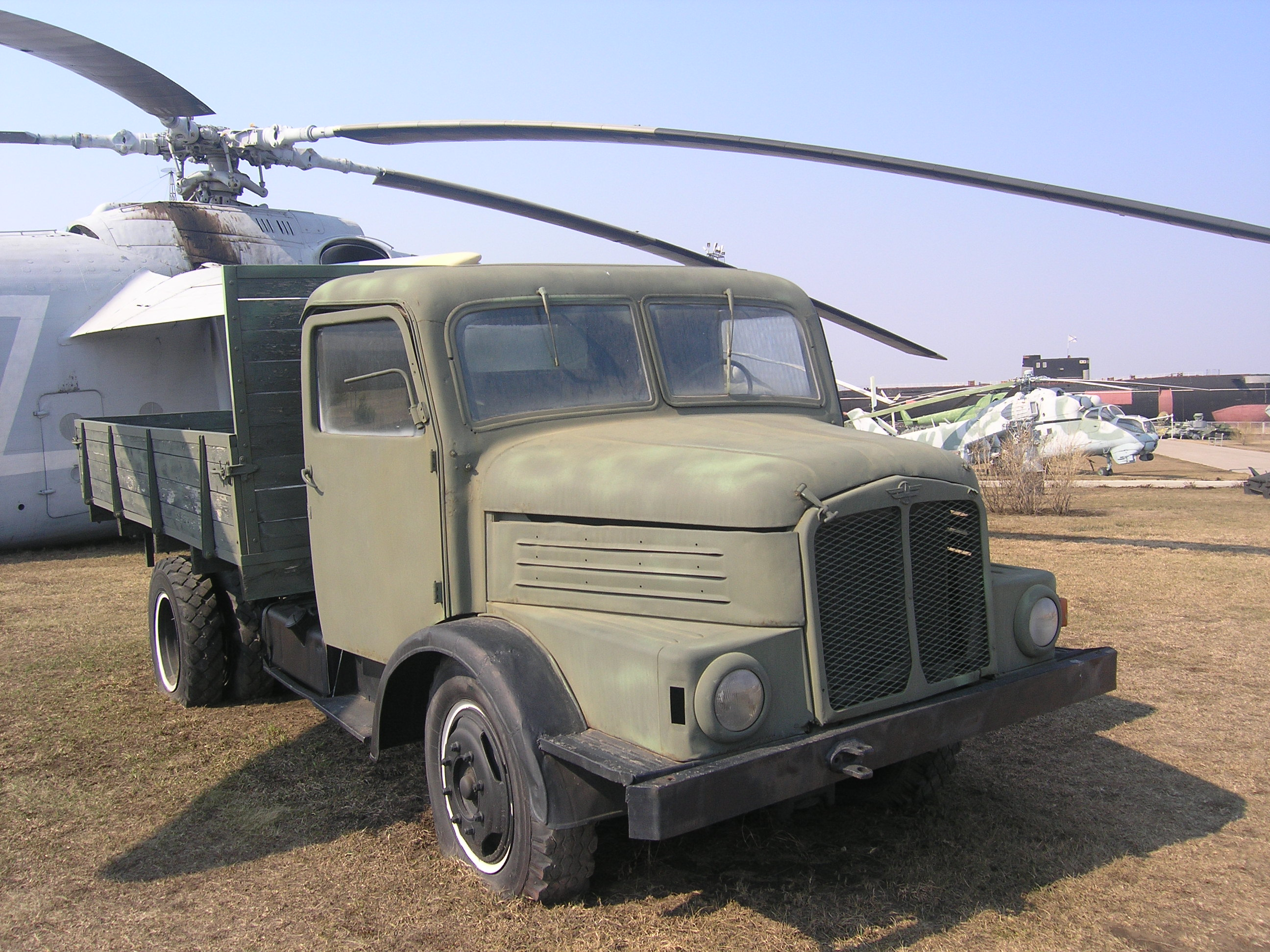 IFA S4000. Technical museum Togliatti